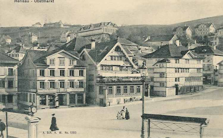 Postcard of Herisau (capital of the Swiss canton of Appenzell Ausserrhoden) at the beginning of the 20th century